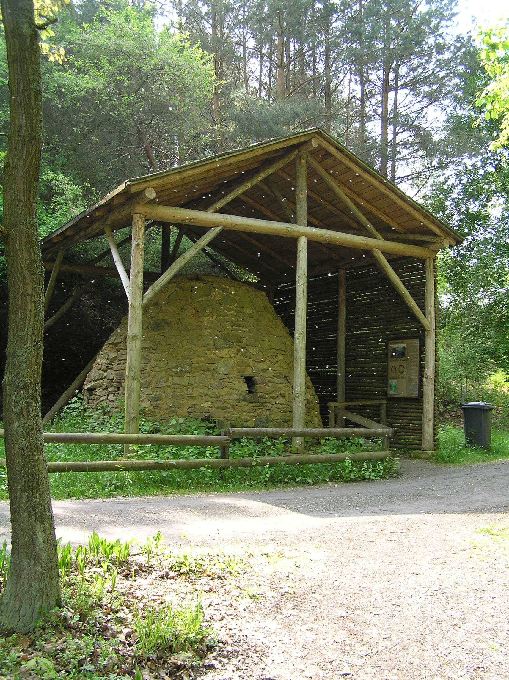 Pitch producing facitity, Hessenpark, Neu-Anspach, Germany